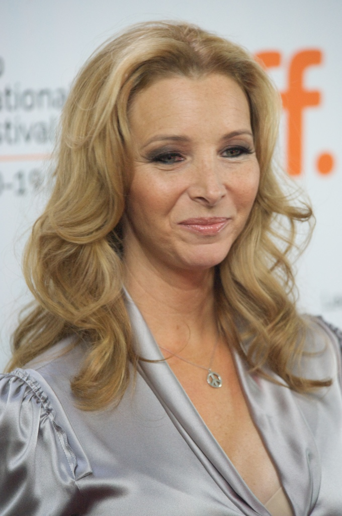 Lisa Kudrow at the premiere gala for Love and Other Impossible Pursuits' at the 2009 Toronto International Film Festival.